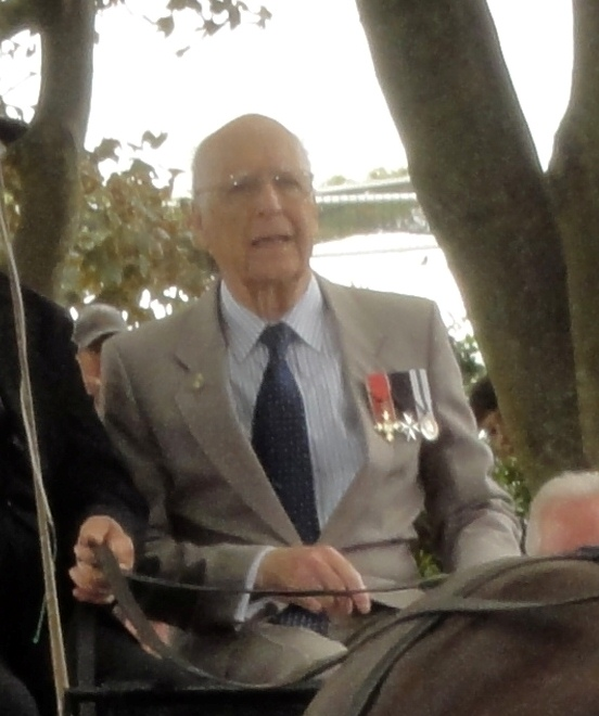 The Seigneur of Sark during the Prince of Wales and Duchess of Cornwall's visit to Sark in 2012.